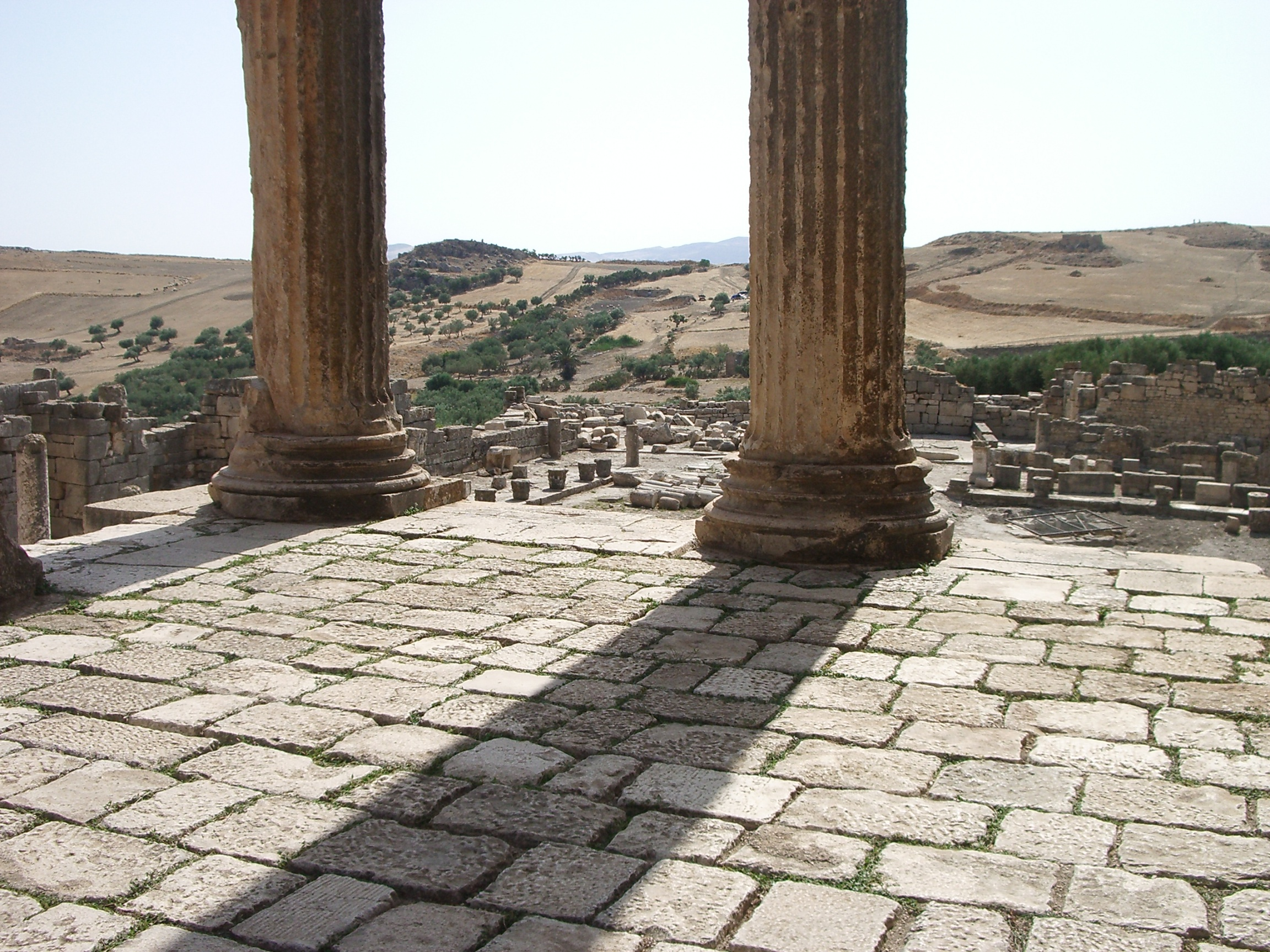 Dougga (Thugga), Tunisia - view from the Capitol - personal photo, 14.08.2006